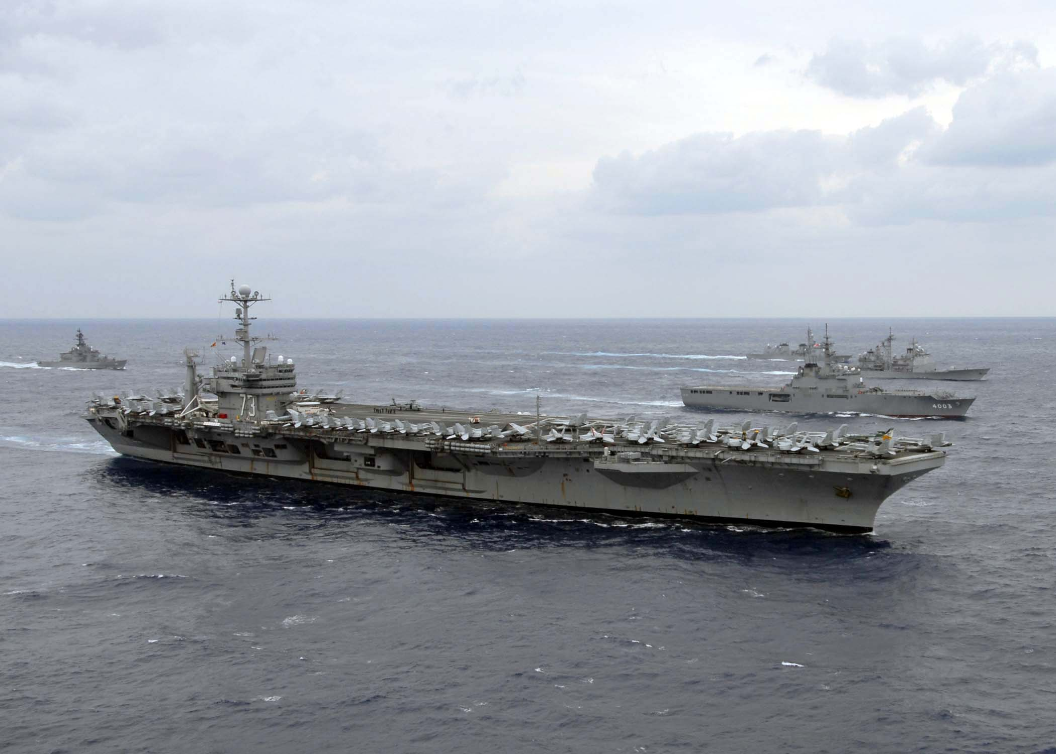 U.S. Navy and Japan Maritime Self-Defense Force ships steam in formation while participating in a photo exercise with the aircraft carrier USS George Washington (CVN 73) at the culmination of ANNUALEX 2008. ANNUALEX is a bilateral exercise between the U.S. Navy and the Japan Maritime Self-Defense Force.